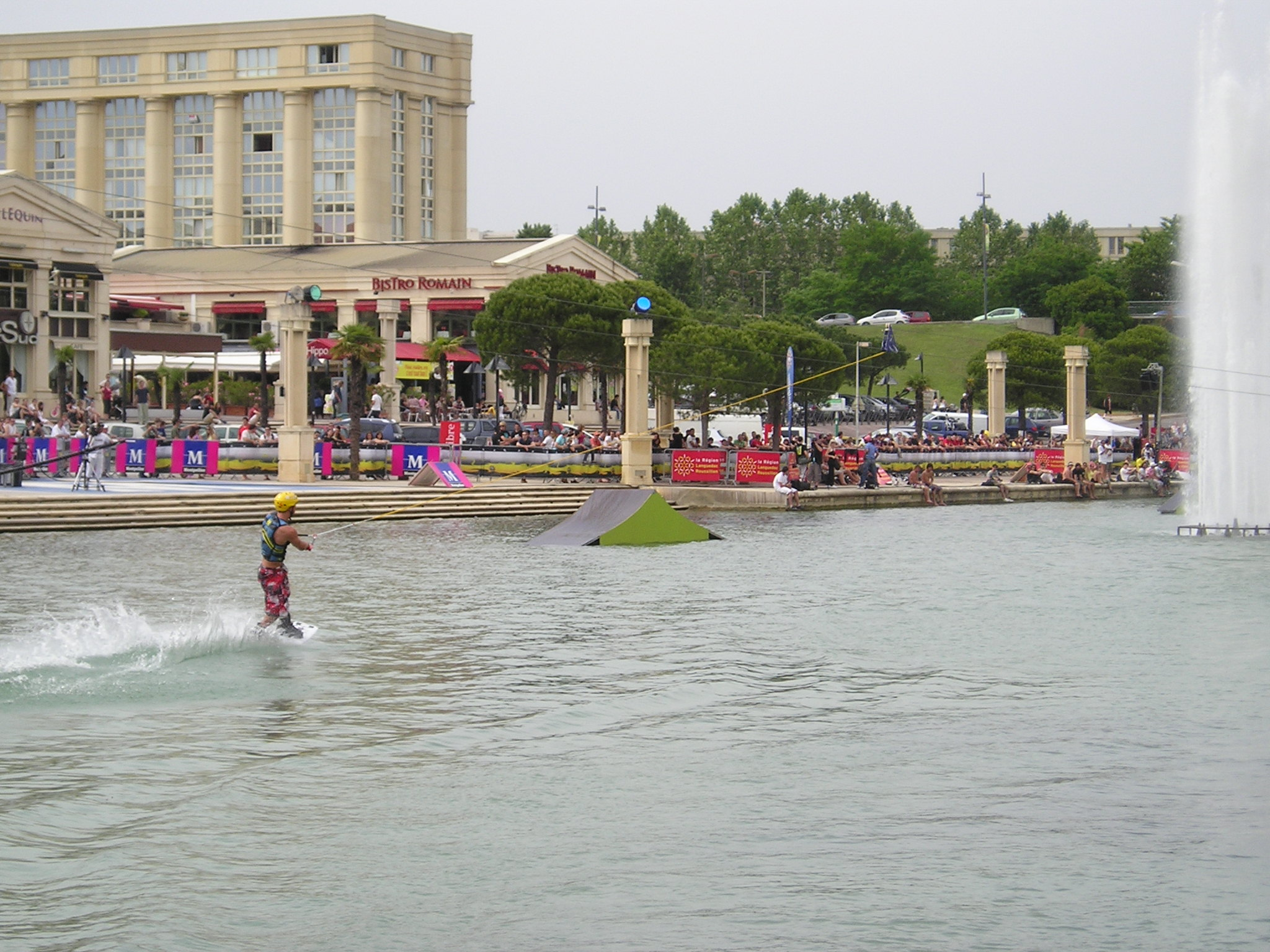 Montpellier FISE 2009: on the wakeboarding circuit, a competitor and the teleski-like system (to avoid motorboat).